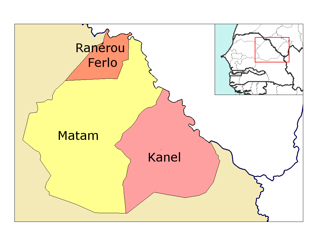 Map of the departments of Matam region in Senegal. Created by Rarelibra 22:31, 28 December 2006 (UTC) for public domain use, using MapInfo Professional v8.5 and various mapping resources.